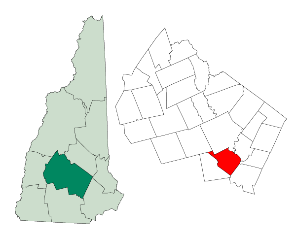 Map of a municipality in Merrimack County, New Hampshire